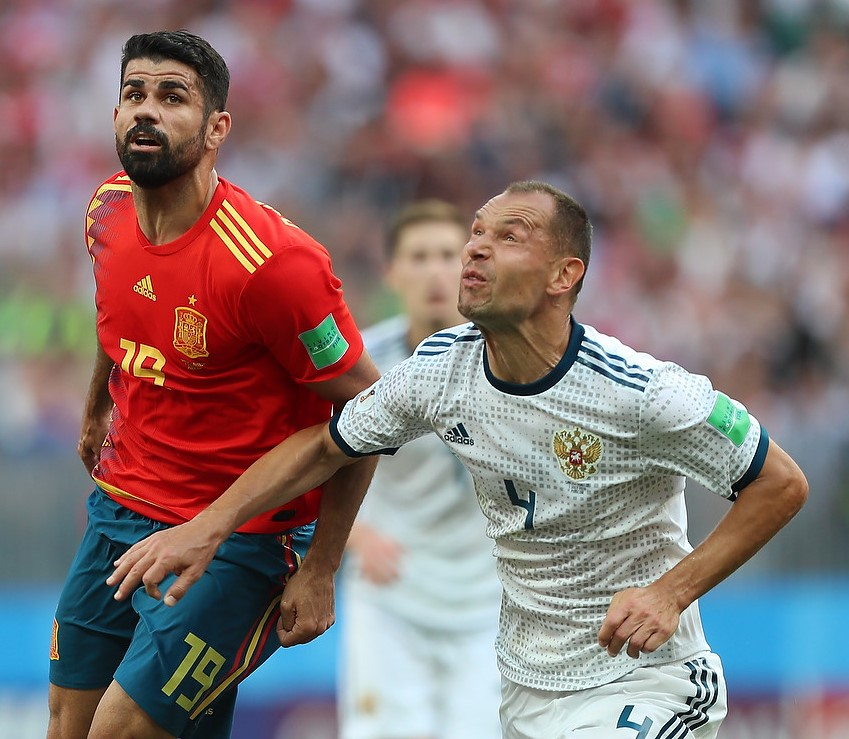 2018 FIFA World Cup Match 51, Russia v Spain